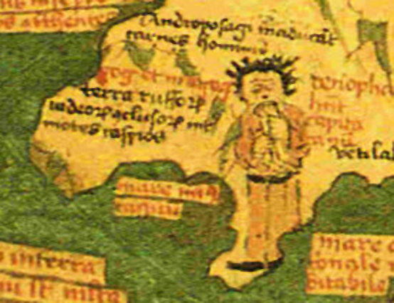 Detail from the Mappa mundi by Andreas Walsperger (Biblioteca Apostolica Vaticana - Pal. lat. 1362 B, 1449) showing the "Red Jews" and the cannibals (anthropophagi) in the far northeast of the world.